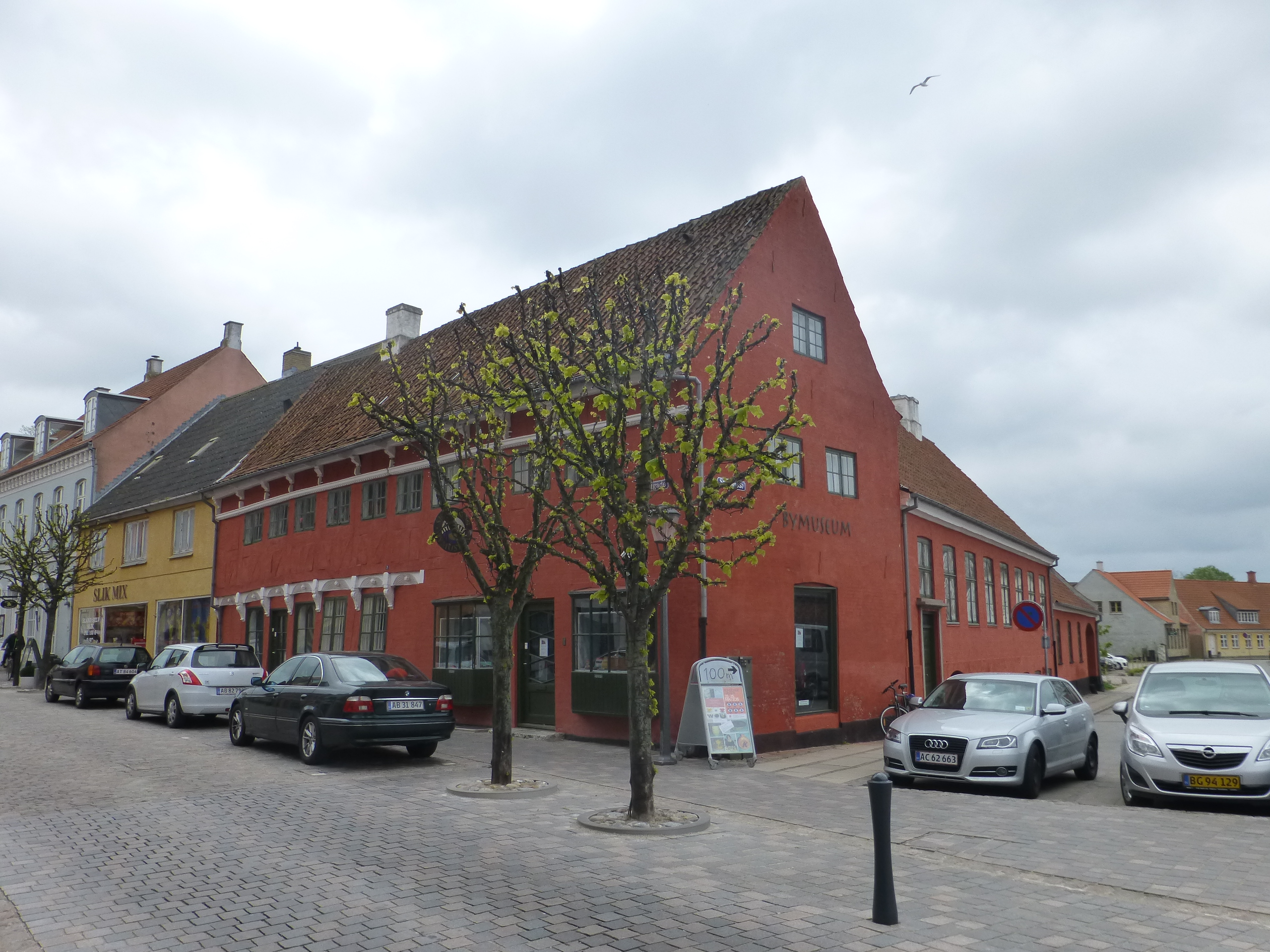 The city museum of Skælskør in Denmark.